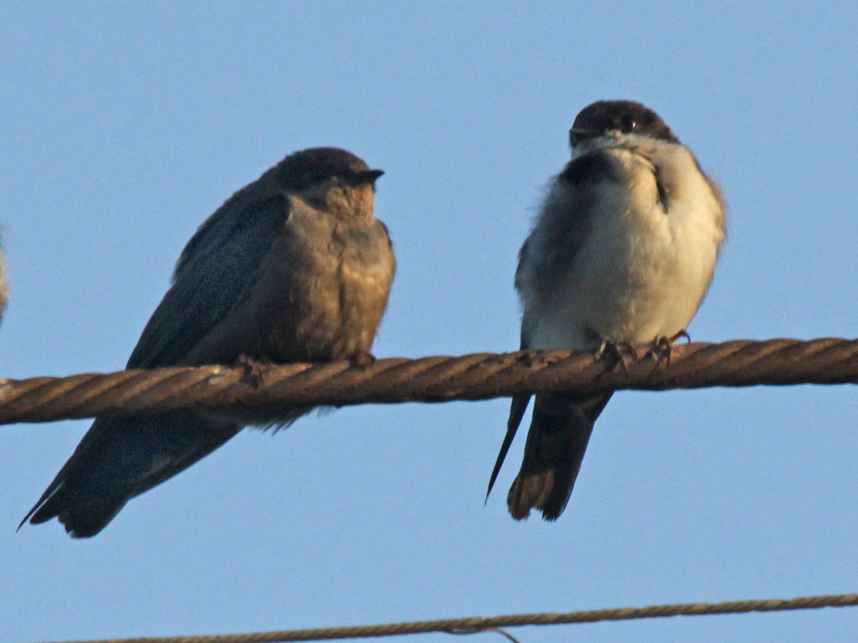 Brown-bellied Sparrow (Notiochelidon murina) and Blue-and-white Swallow (Notiochelidon cyanoleuca) - Otavalo, Ecuador